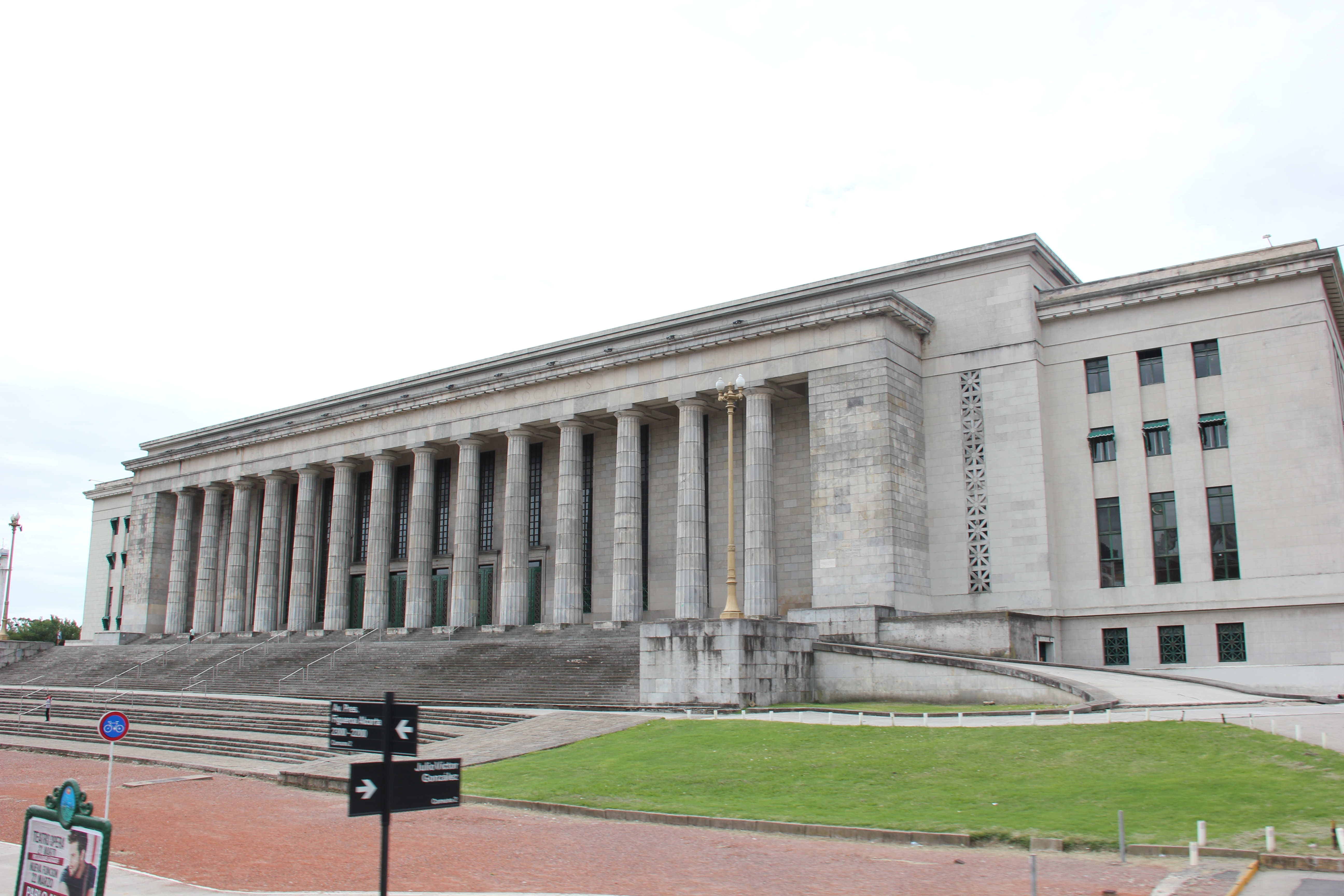 University of Buenos Aires Law School, on Figueroa Alcorta Avenue. Recoleta, Buenos Aires.